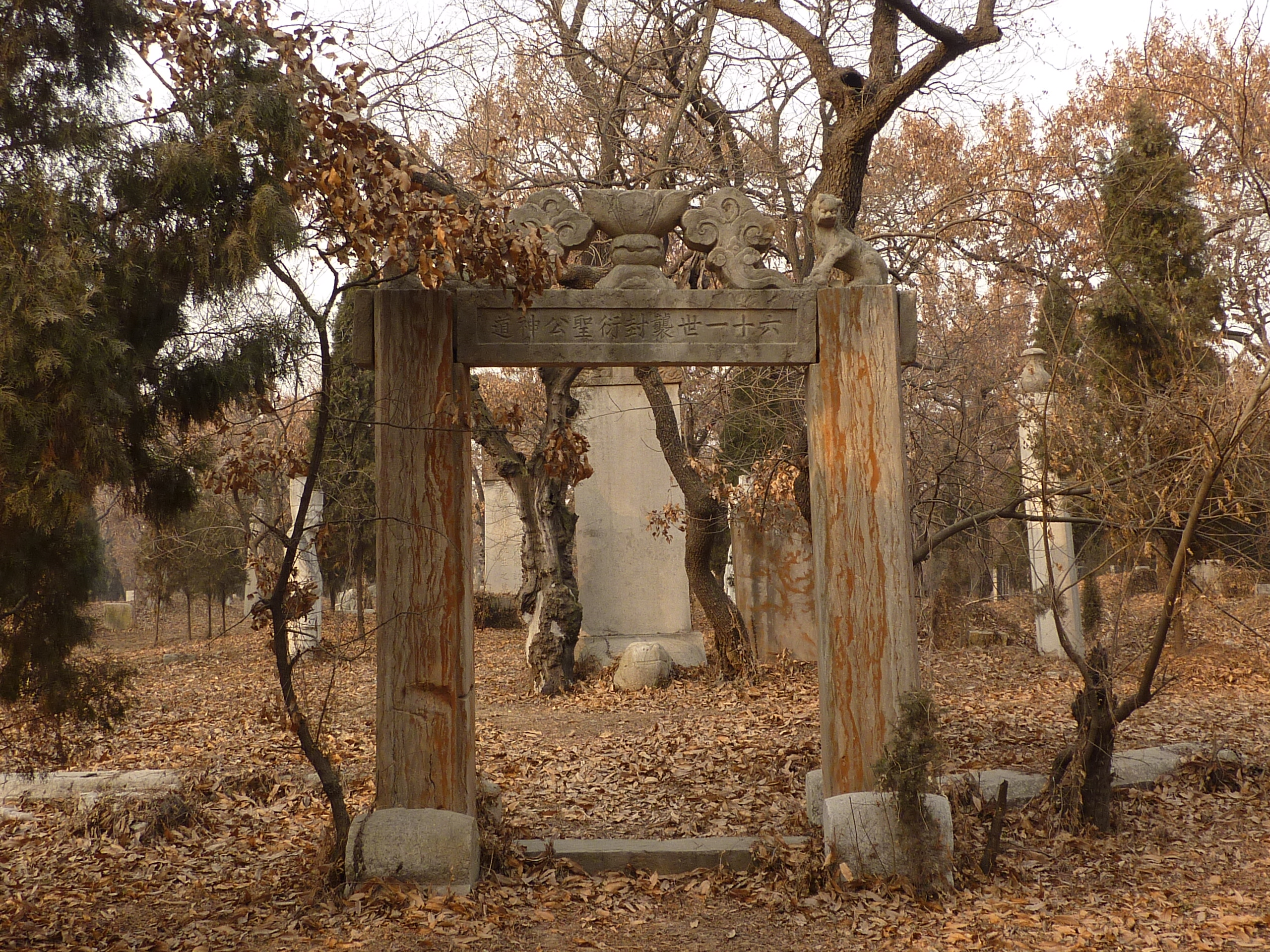 The area in the Ming (western) part of the Cemetery of Confucius where the ten Dukes of Yansheng, who were the leaders of the Kong clan (55th through 64th generation in the direct line of descent from Confucius) and the feudal rulers of Qufu, have been buried. Each of the ten dukes appears to have his own "spirit road" (shendao), i.e. a a path lined with the statues of feline creatures (cat? lions? tigers?), rams, horses, warriors and officials, concluded with a stele-bearing bixi tortoise, and, finally, the actual tombstone. As elsewhere in China, the tombstones and the bixi normally face south, while the spirit way figures face each other, looking across the path that runs from the south to the north.